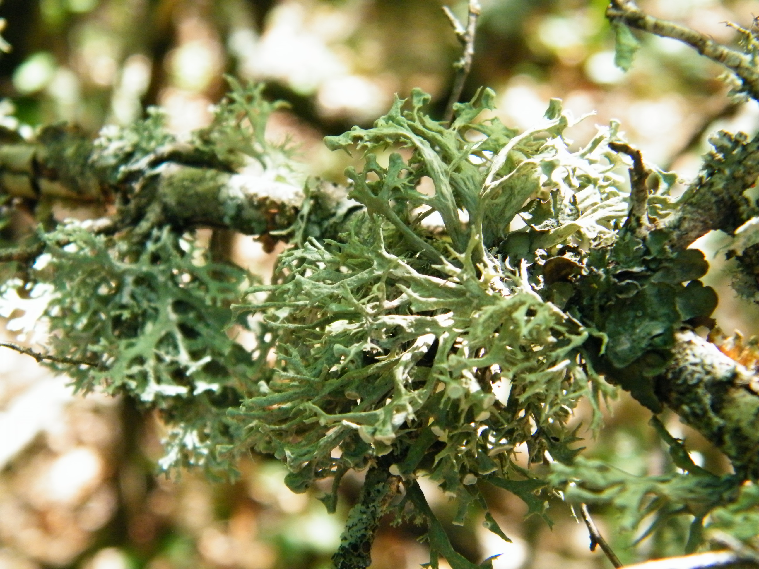 Evernia prunastri